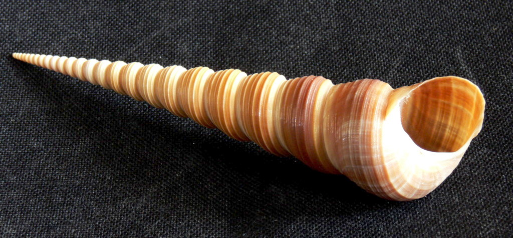 shell of a species from Turritellidae family